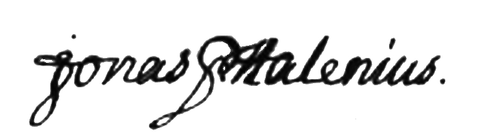 Signature of Jonas P. Halenius.